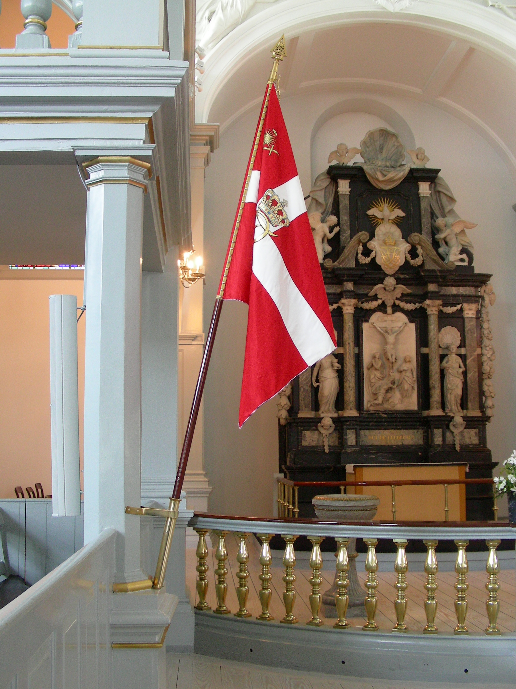 Garnisons Kirke (Garrison Church), Copenhagen, Denmark. Colours.